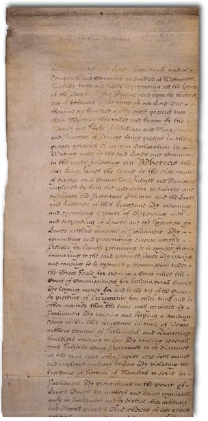 This is a low-resolution scan or photo of the English Bill of Rights of 1689.